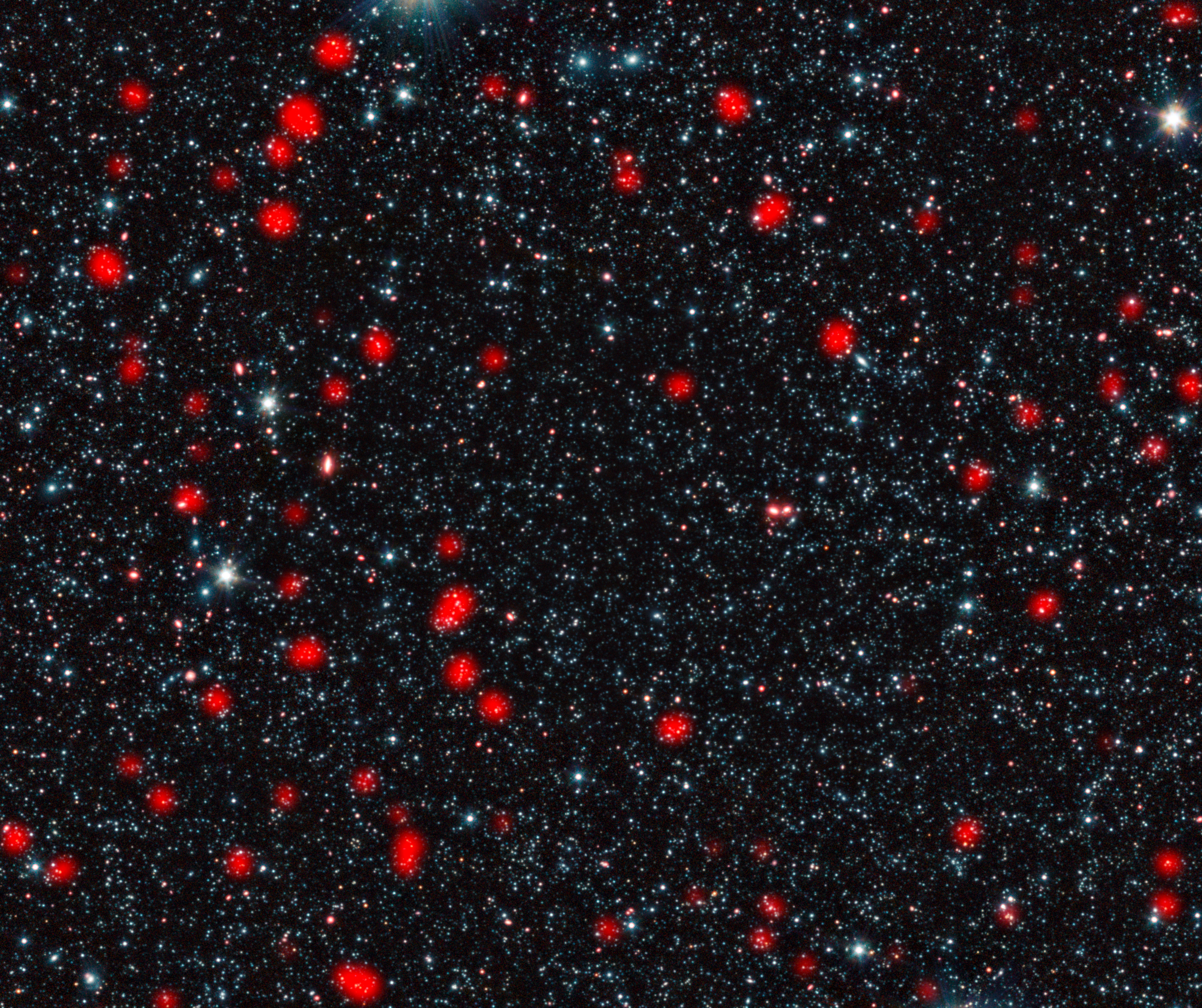 The LABOCA camera on the ESO-operated 12-metre Atacama Pathfinder Experiment (APEX) telescope reveals distant galaxies undergoing the most intense type of star formation activity known, called a starburst. This image shows these distant galaxies, found in a region of sky known as the Extended Chandra Deep Field South, in the constellation of Fornax (The Furnace). The galaxies seen by LABOCA are shown in red, overlaid on an infrared view of the region as seen by the IRAC camera on the Spitzer Space Telescope. By studying how some of these distant starburst galaxies are clustered together, astronomers have found that they eventually become so-called giant elliptical galaxies — the most massive galaxies in today’s Universe. The galaxies are so distant that their light has taken around ten billion years to reach us, so we see them as they were about ten billion years ago. Because of this extreme distance, the infrared light from dust grains heated by starlight is redshifted into longer wavelengths, and the dusty galaxies are therefore best observed in submillimetre wavelengths of light. The galaxies are thus known as submillimetre galaxies.